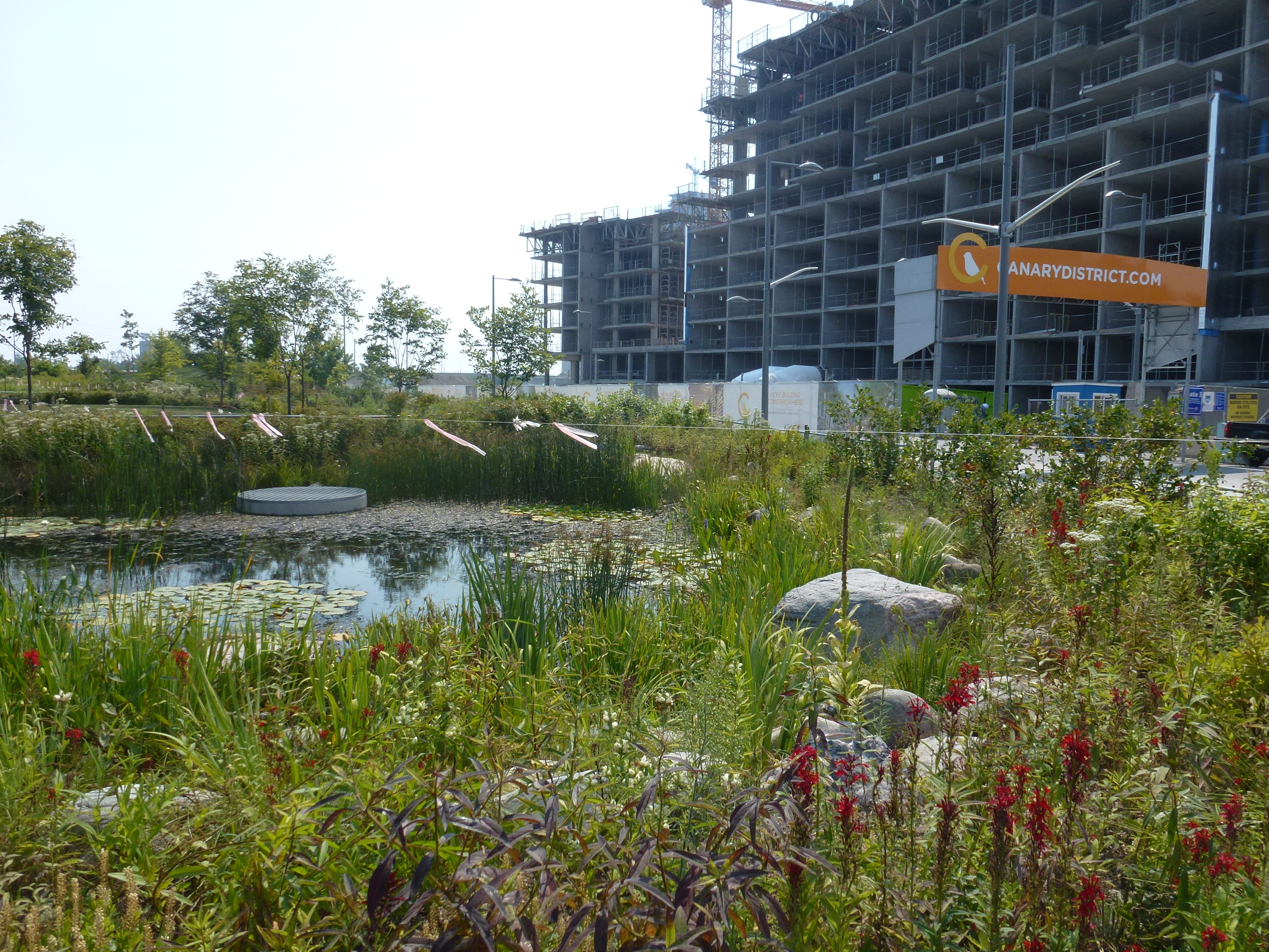 Strolling the West Don Lands, 2013 08 21 (64).JPG